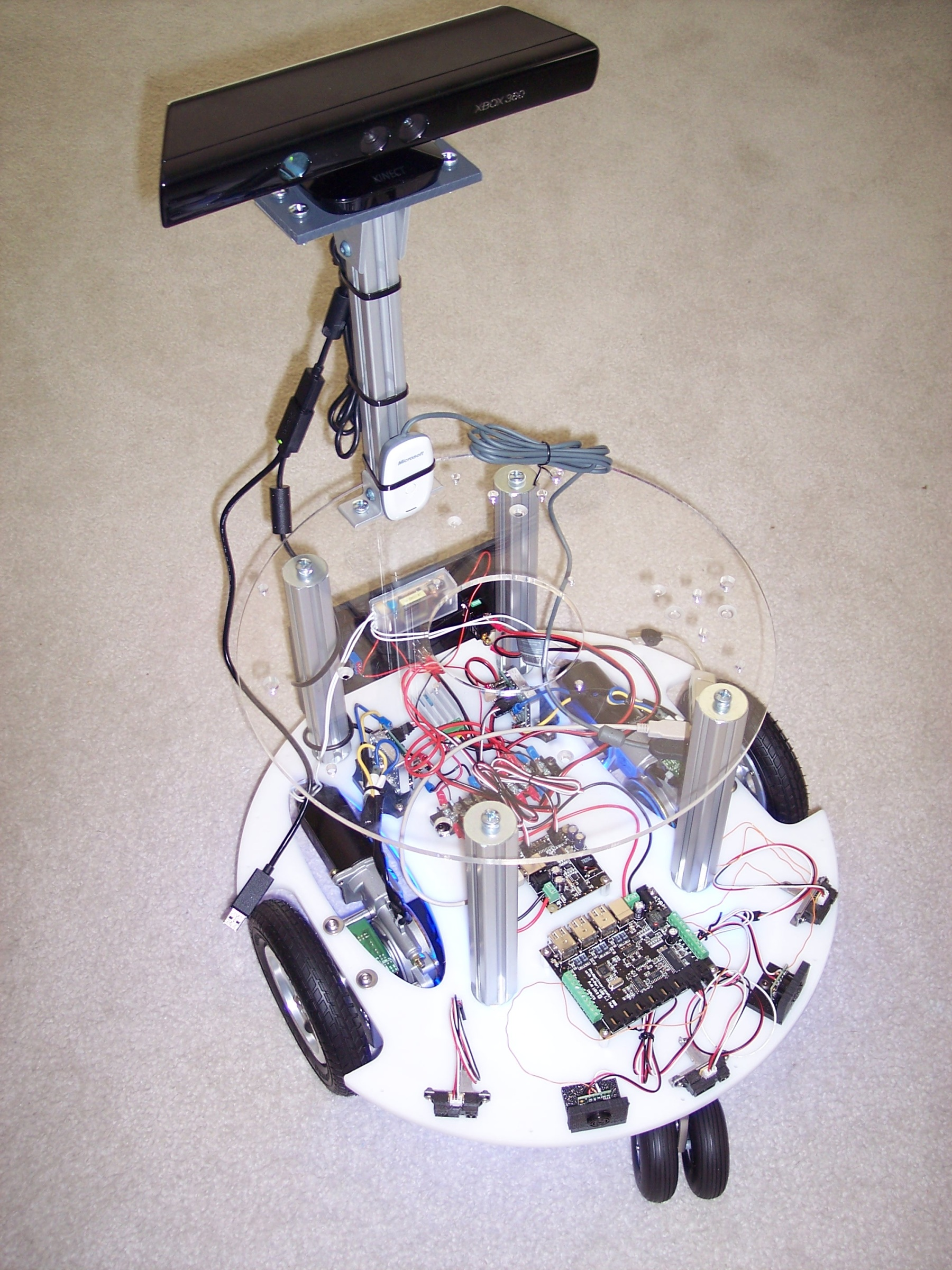 Sample prototype of a RDS Reference Platform robot